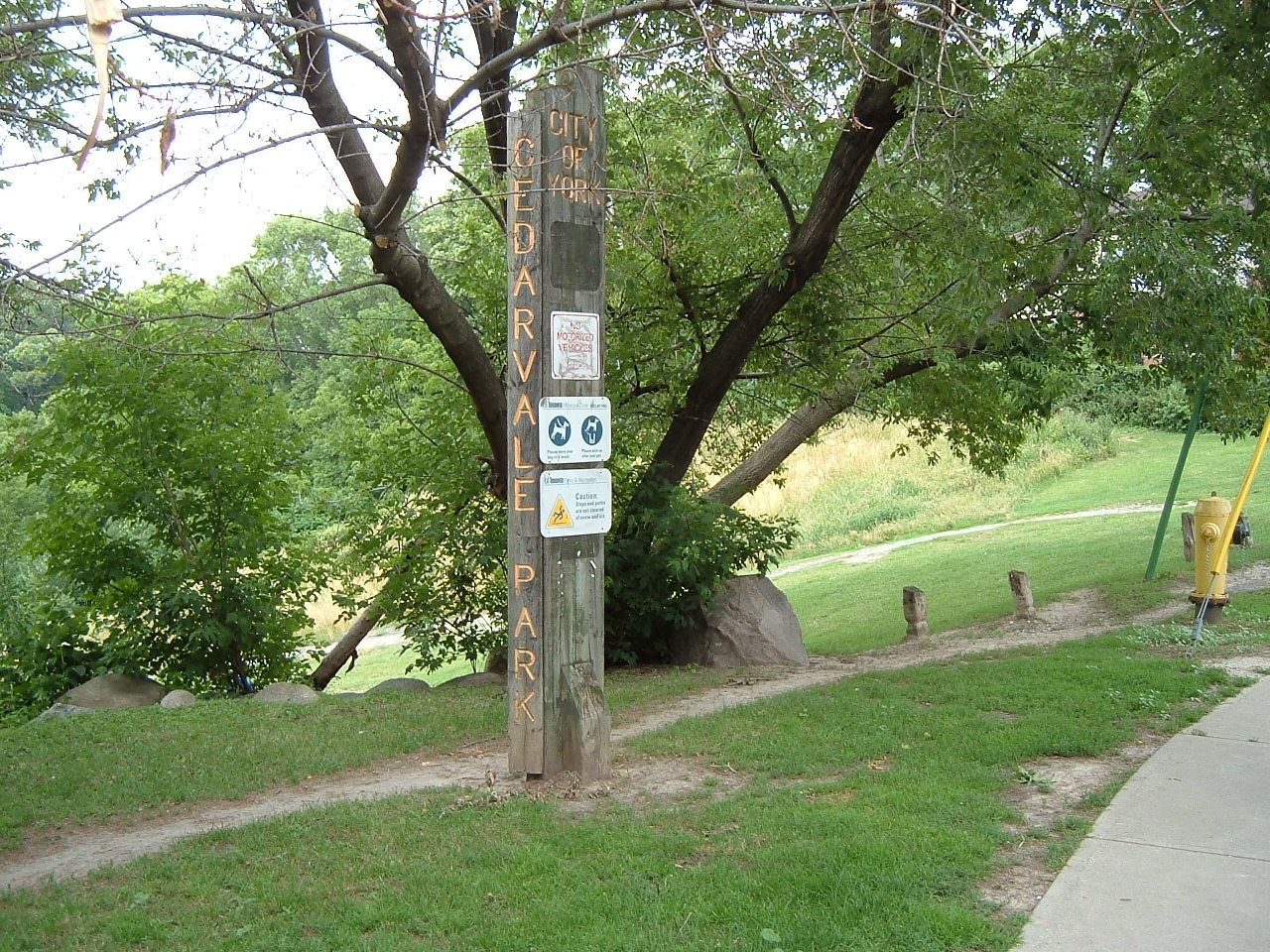 sign for cedarvale park this is my own work.